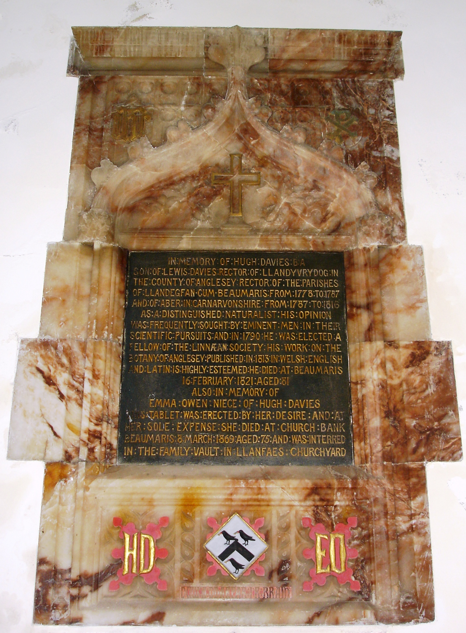 The memorial to Hugh Davies (botanist) in St Mary's Church, Beaumaris, Anglesey, where Davies was rector and where he is buried. Davies died in 1821.